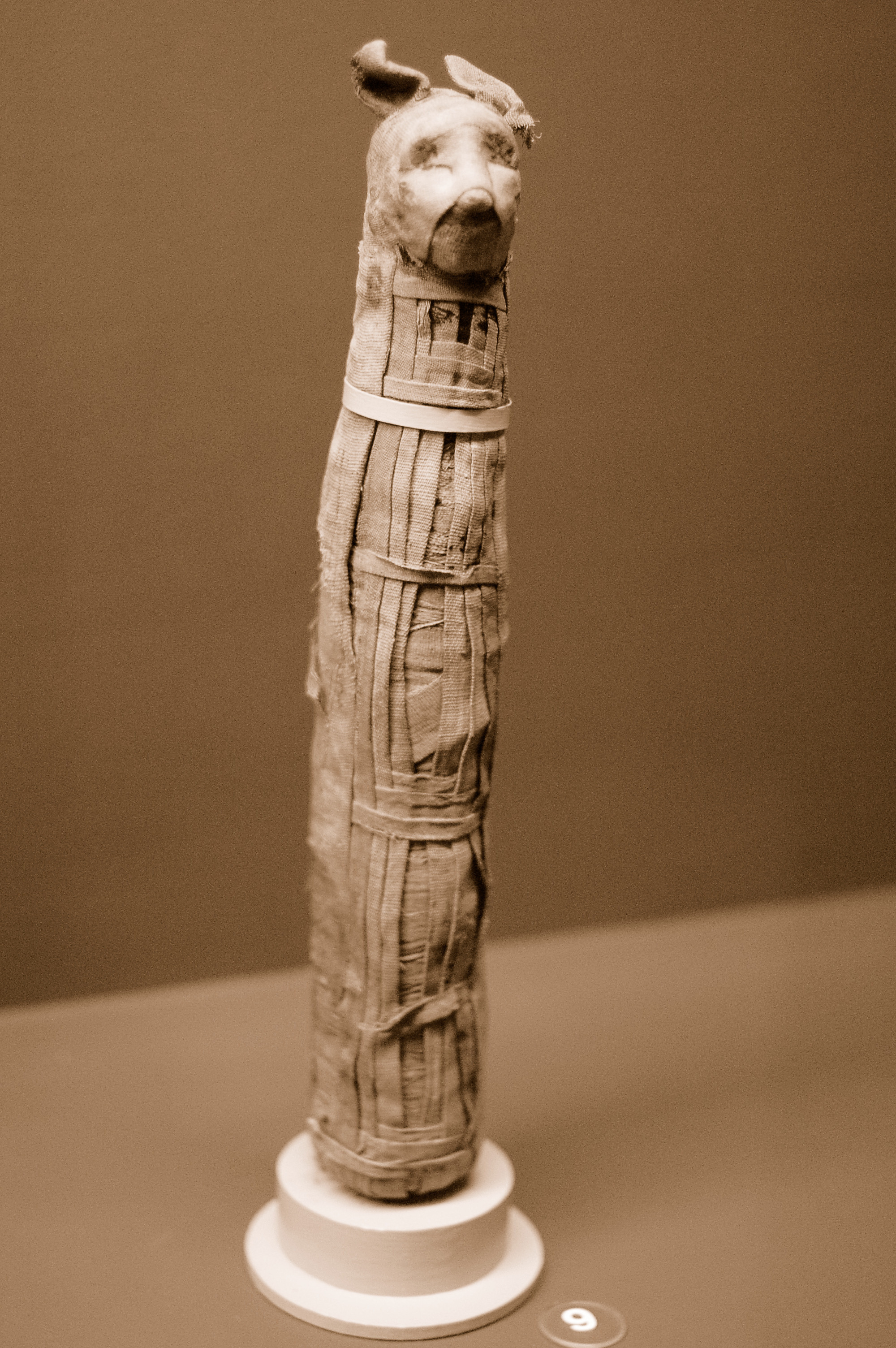 Cat Mummy at Rosecrucian Egyptian Museum, San Jose, California.